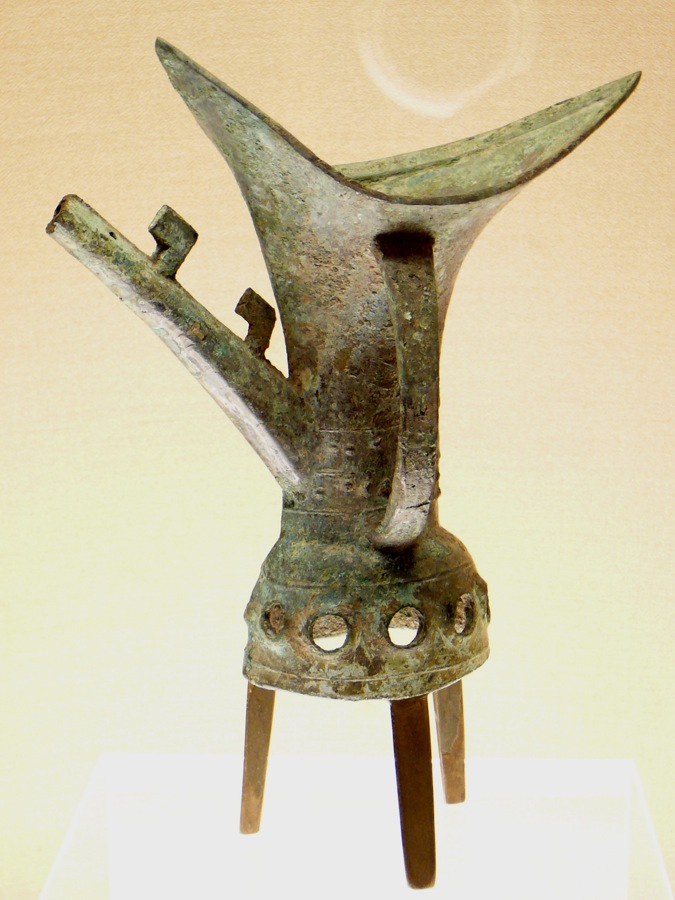 18th century BC jue, a chinese bronze tripod goblet used to serve wine, usually for ritual purposes. 18th century BC would date it to the mythic Xia Dynasty (2070 to 1600 BCE).